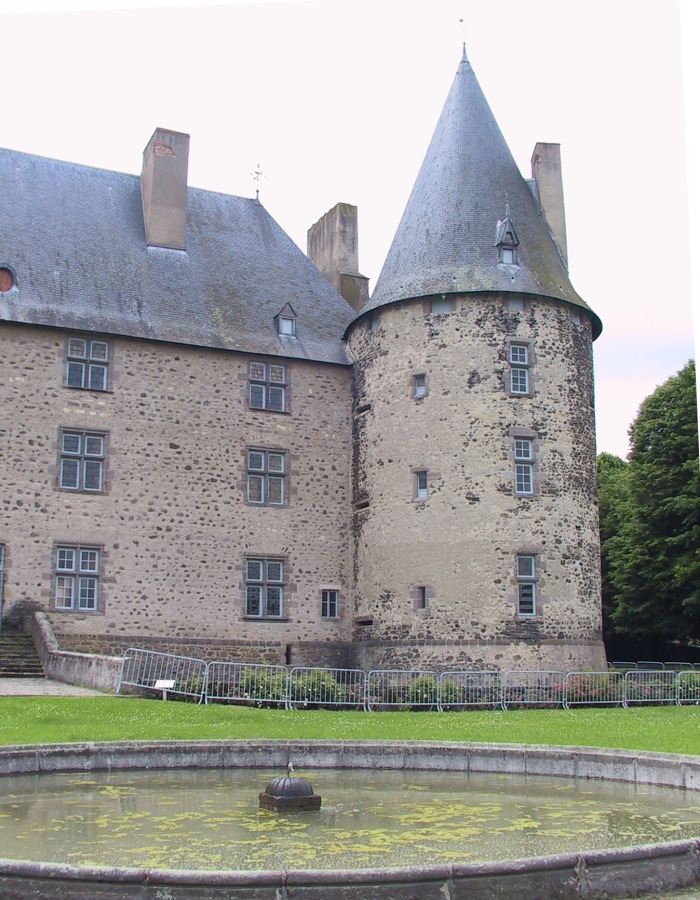 Villeneuve-Lembron castle, Puy-de-Dôme, France.